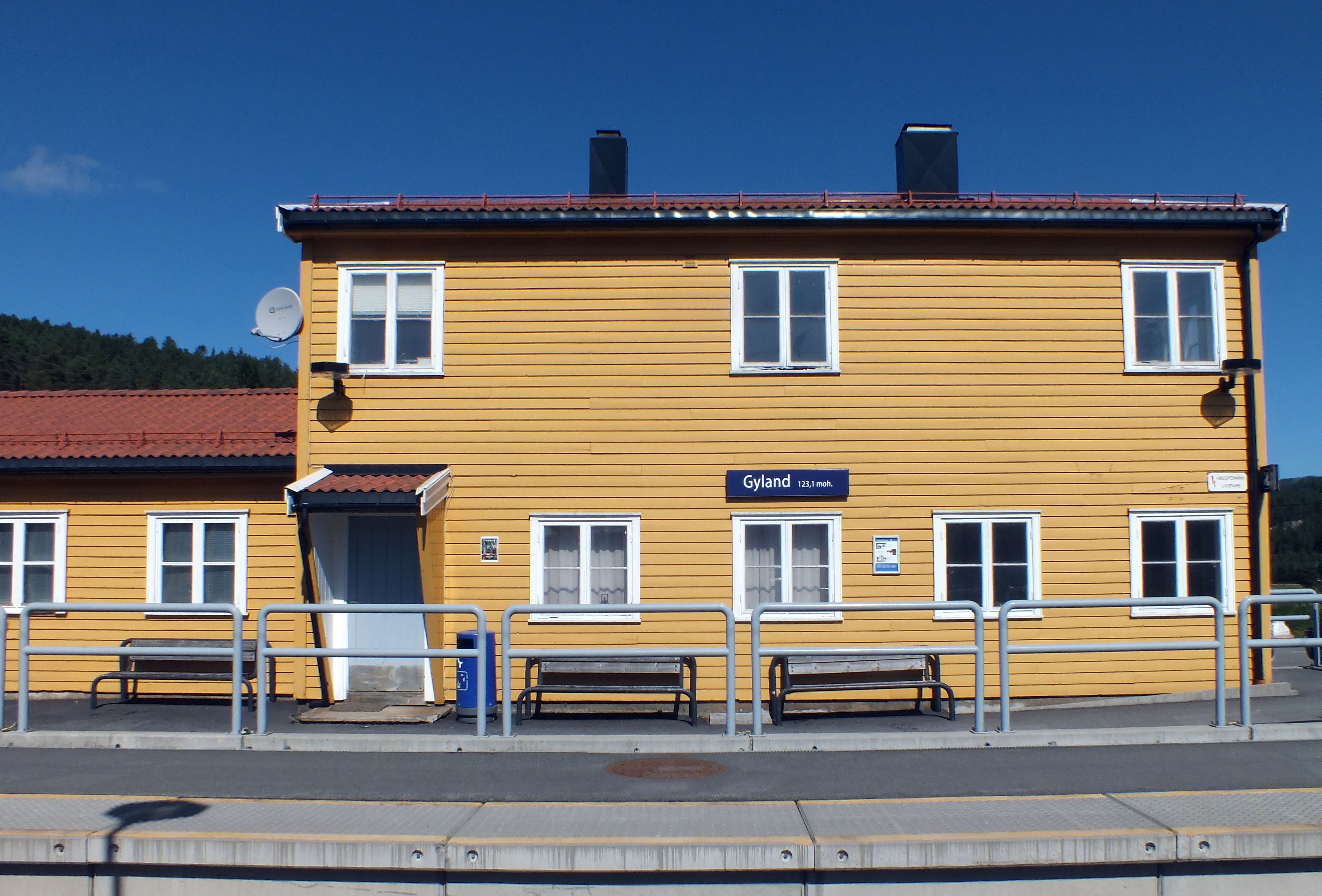 Gyland train station, Vest-Agder, Norway.